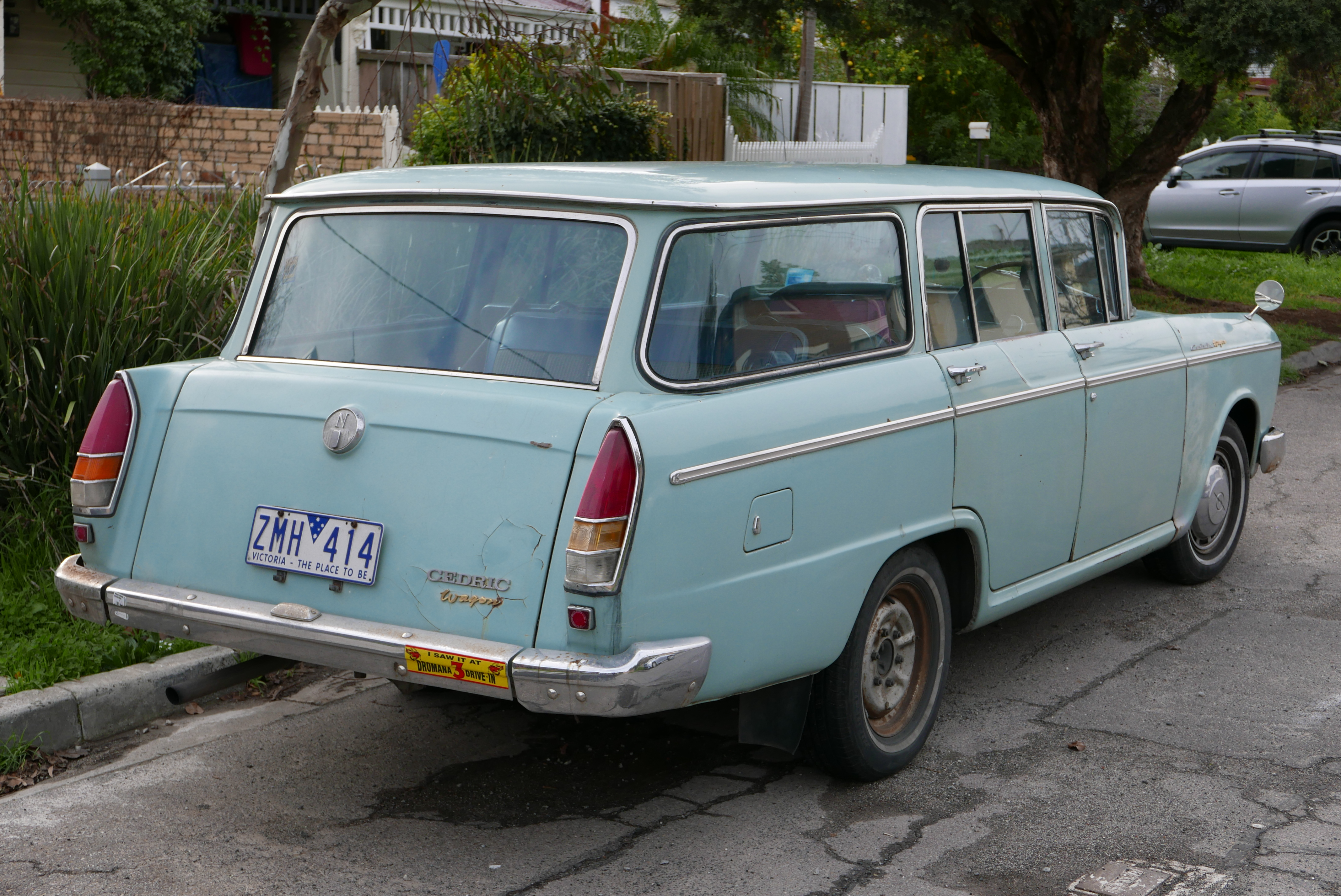 1965 Nissan Cedric (WP31) station wagon. Photographed in Northcote, Victoria, Australia. Vehicle registration enquiry results Jurisdiction Victoria Registration ZMH414 Chassis code WP3111159 Engine code H20680119 Compliance date 1965-01 Year of manufacture 1965